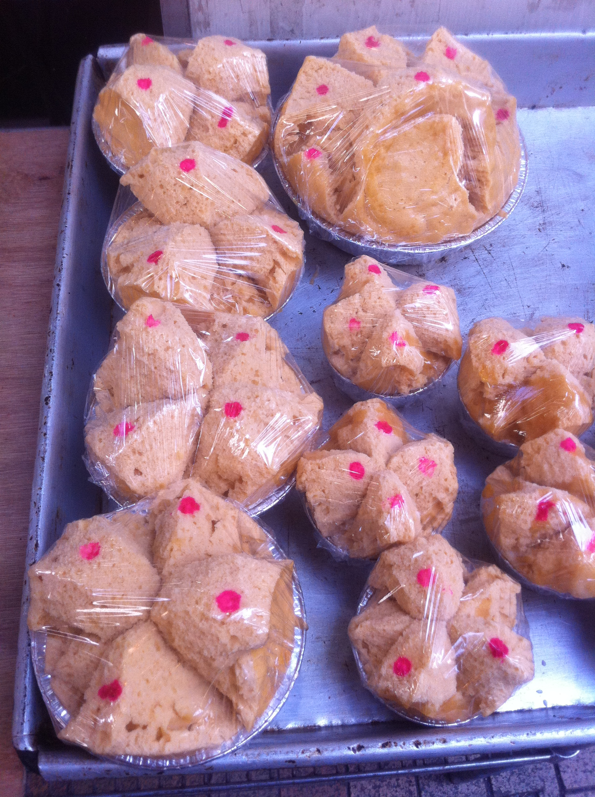 干諾道西 Connaught Road West 華爾登餅店